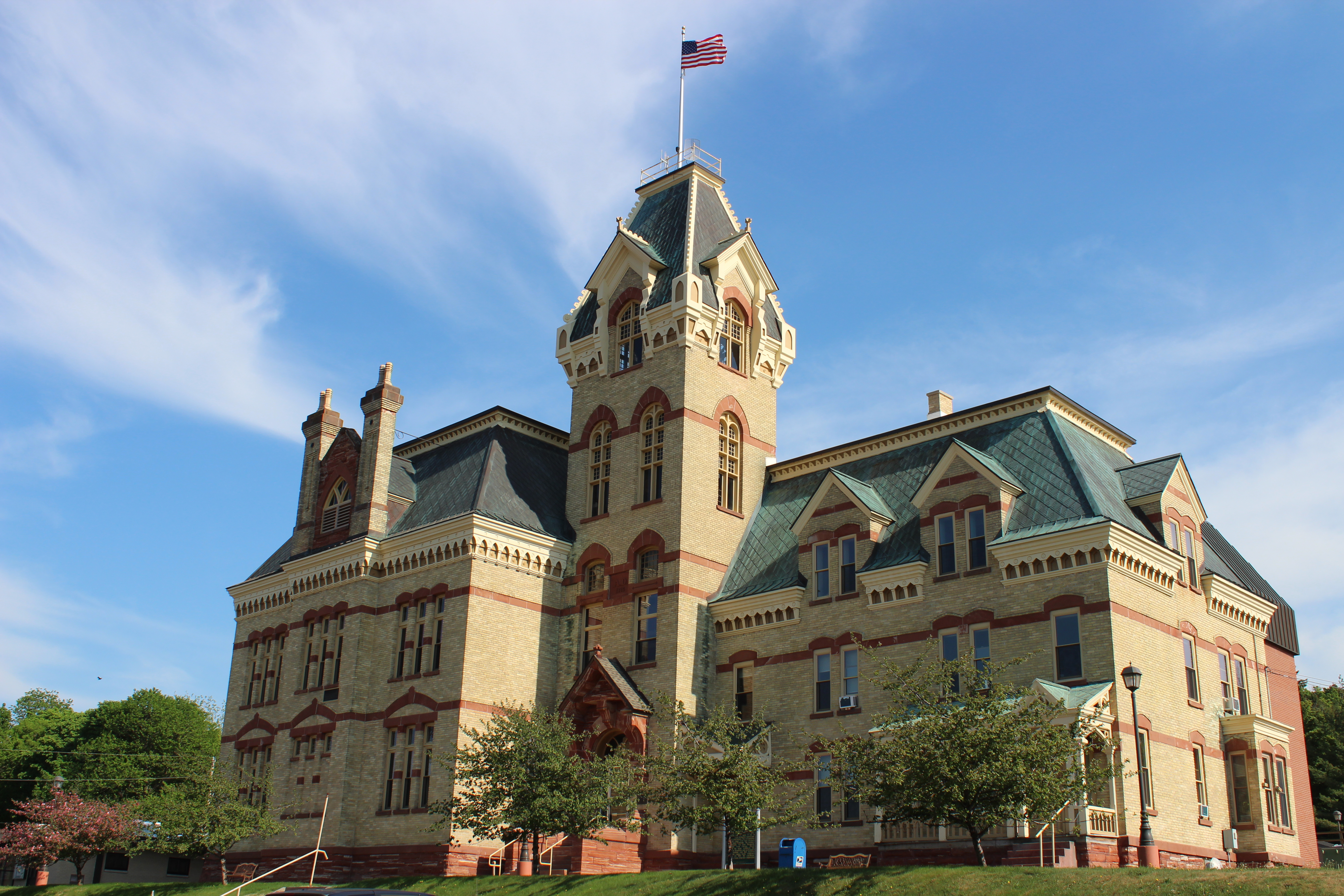 The NRHP-listed Houghton County Courthouse in Houghton, Michigan. Southeast corner.